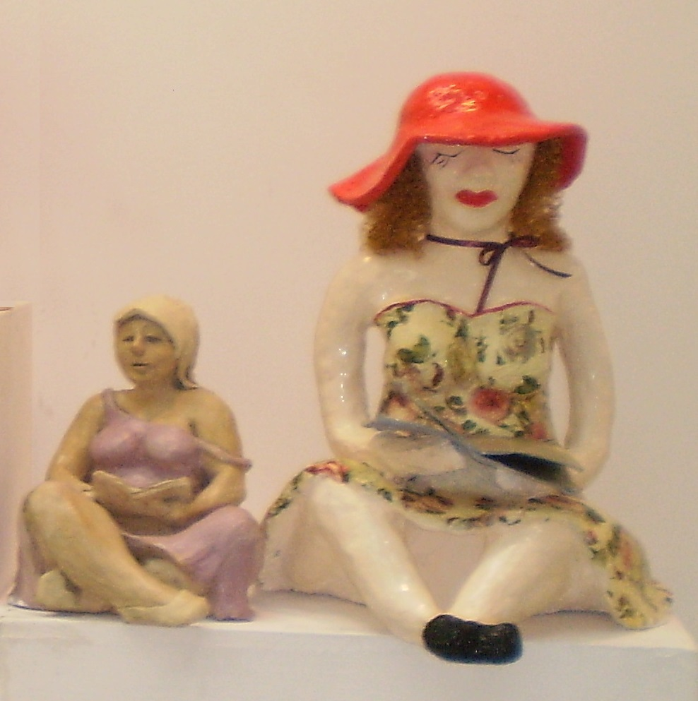 Papier mâché by Shoshana Kartman, at Afula Gallery of Art